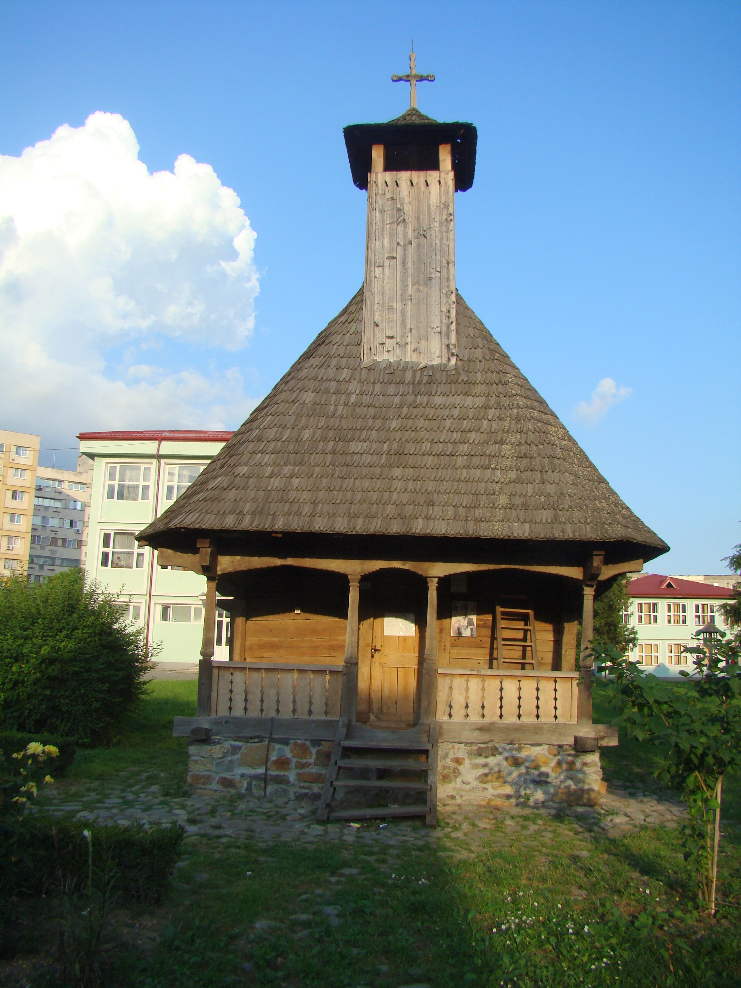 Wooden church in Covrigi, Gorj county, Romania (moved to Târgu Jiu)